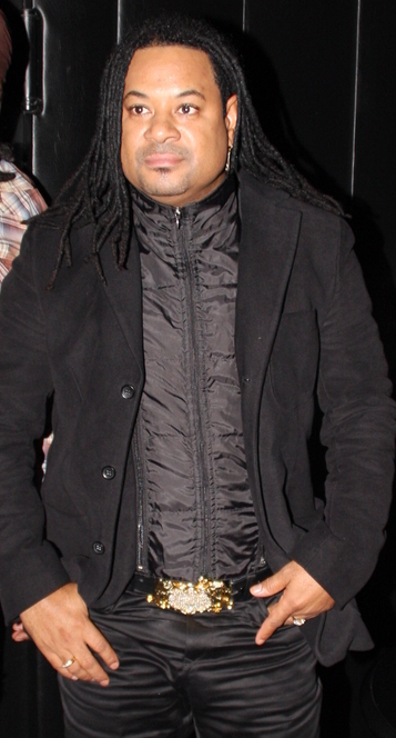 Dominican bachata singer Luis Vargas.